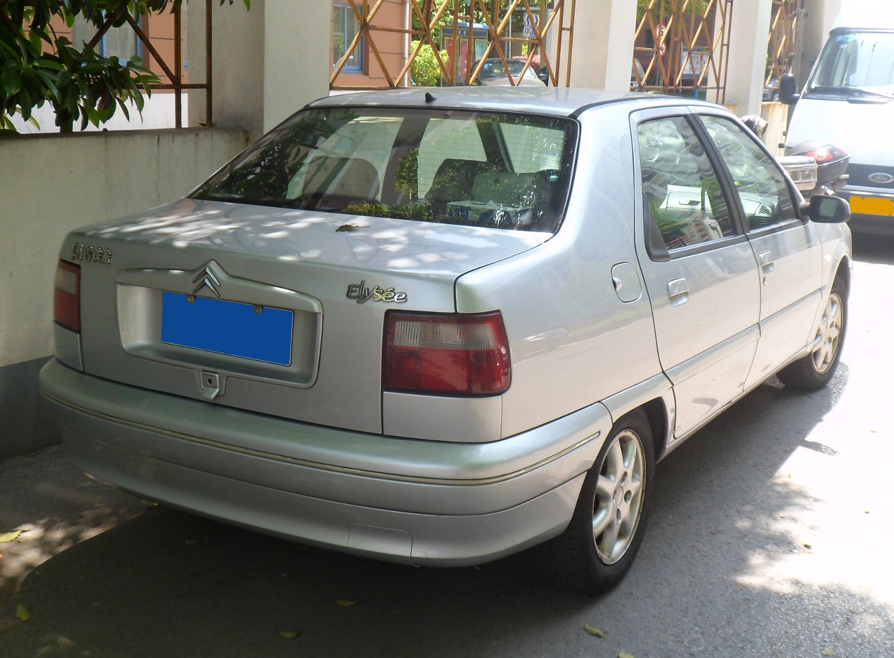 Citroën Elysée photographed in Shanghai, China.